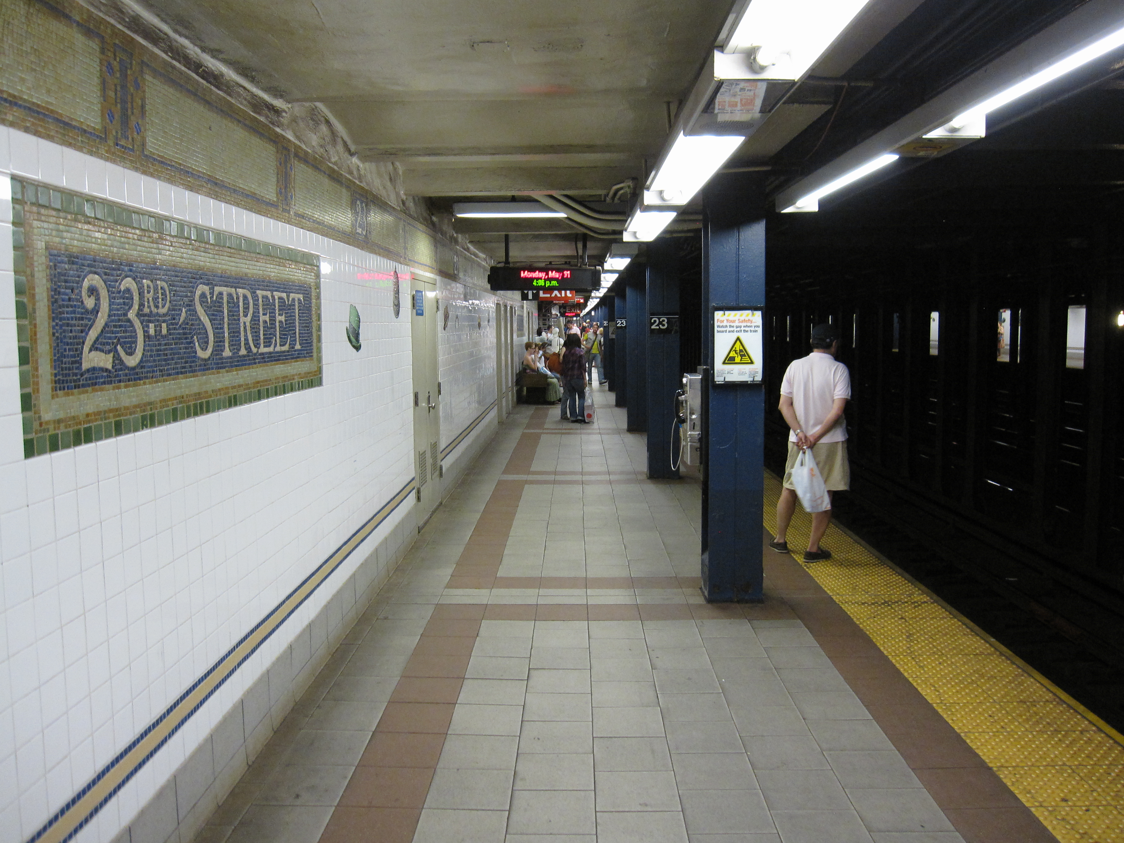 23rd Street (BMT Broadway Line)